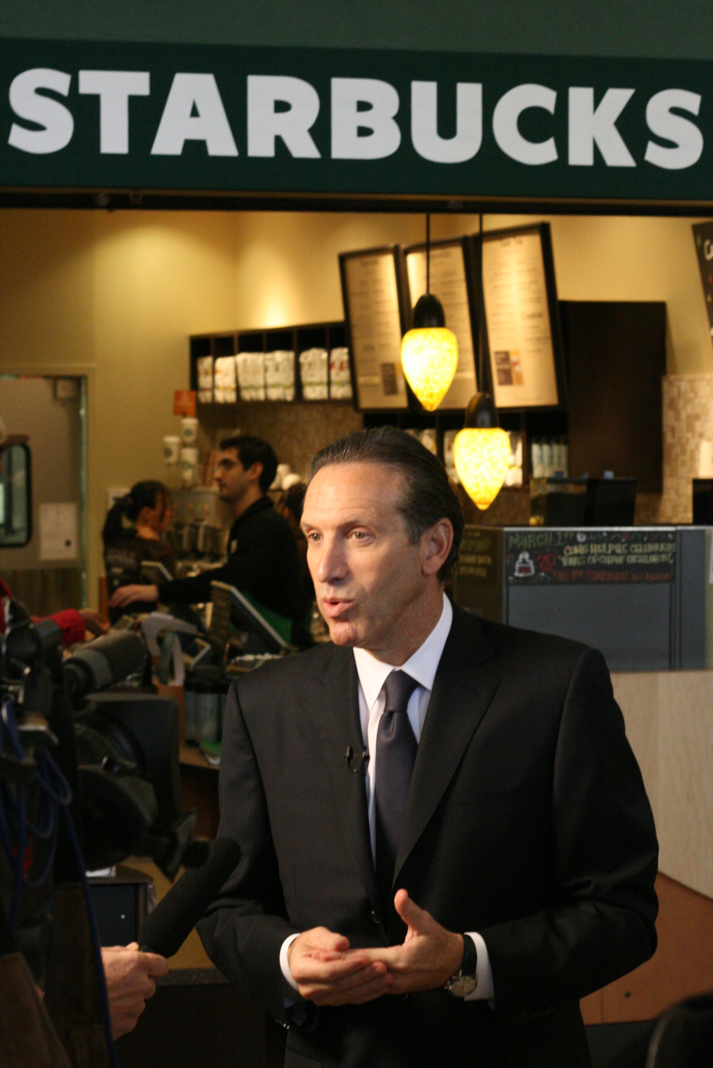 Starbucks Chairman Howard Schultz talks to the media at the Vancouver Waterfront Station location, celebrating 20 years of Starbucks in British Columbia.